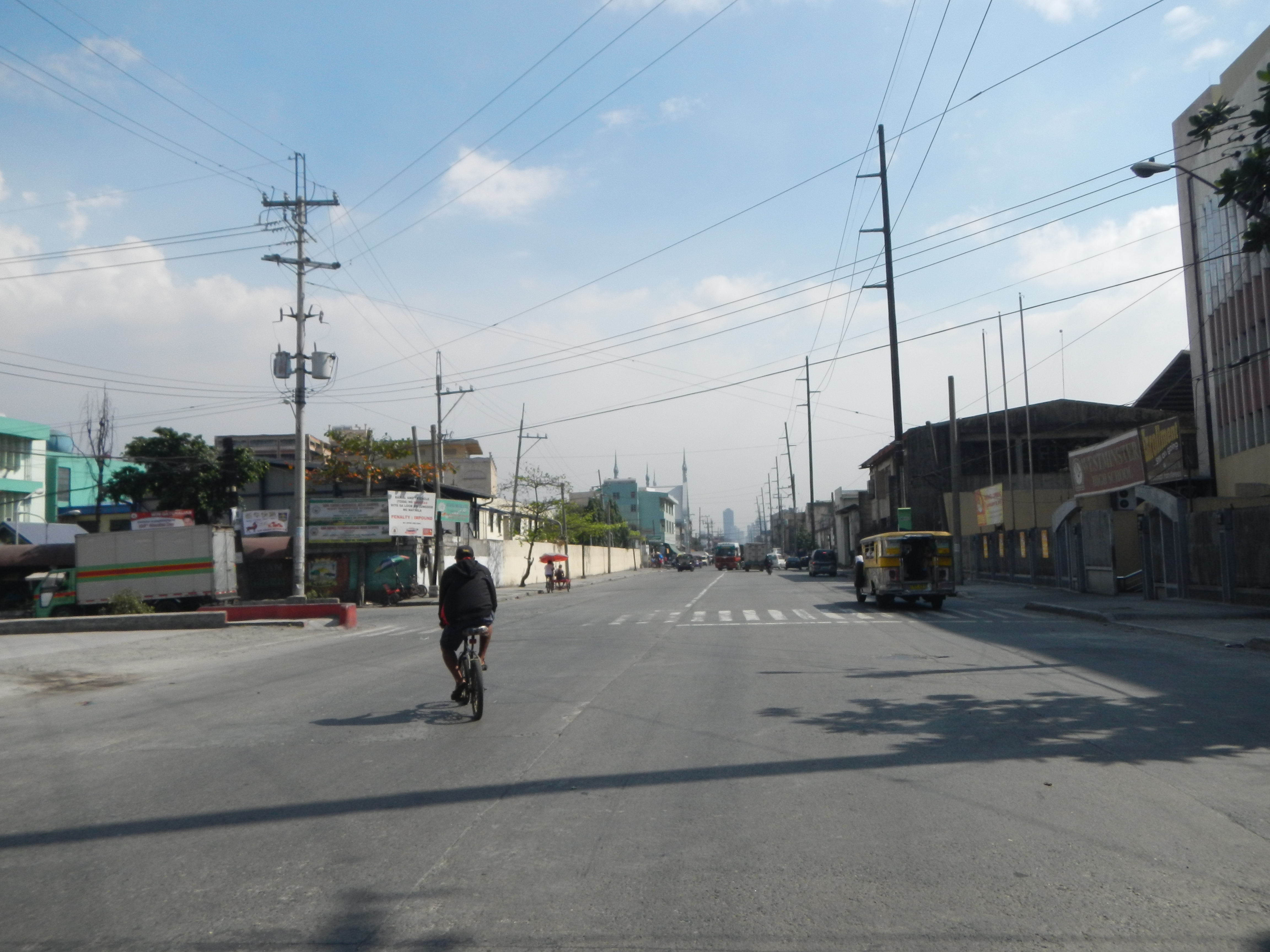 Northbay Boulevard South in Navotas City, Metro Manila National Capital Region - Manila-Navotas Marala bridge.